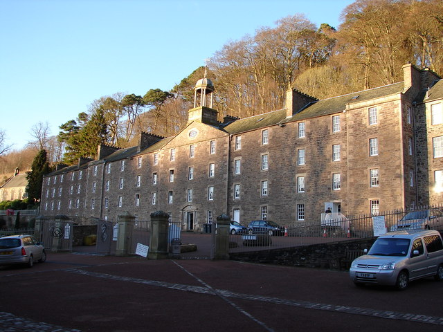 New Lanark buildings View from the main educational block. Note the small church to the top left of the photo.